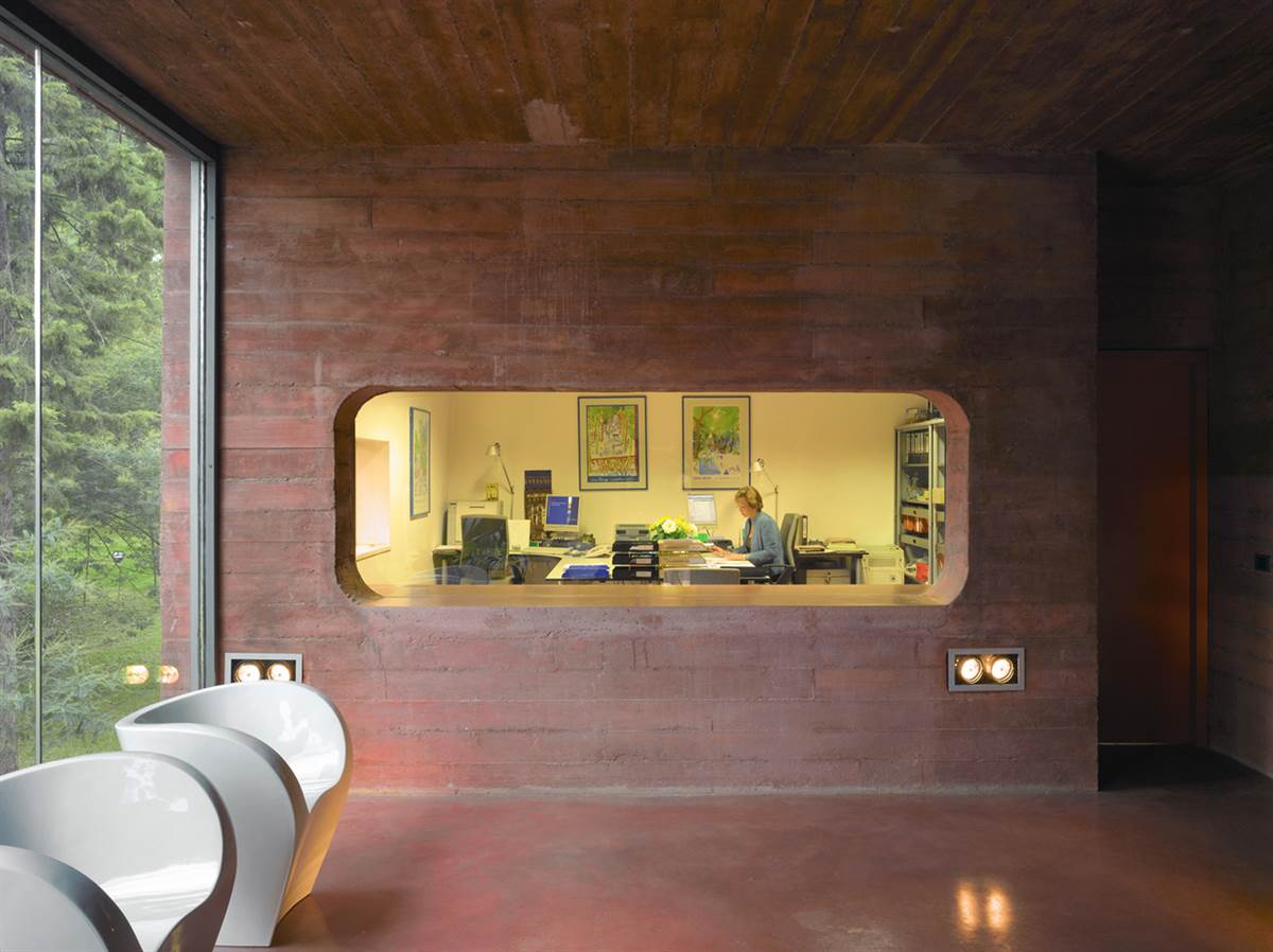 Ethiopia Dutch Embassy in Addis Abeba